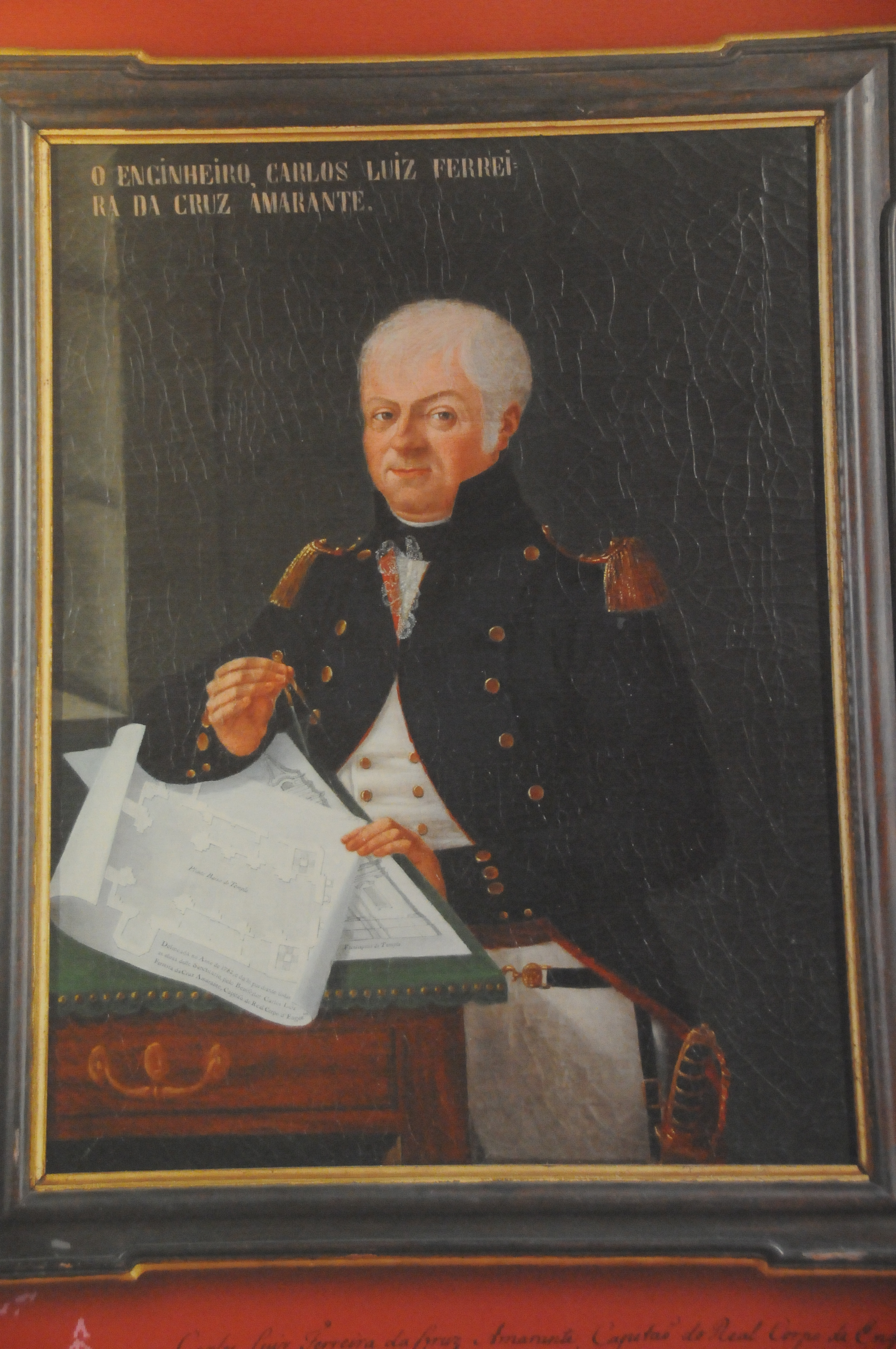 Carlos Amarante in Interior of Raio Palace, in Braga, Portugal.